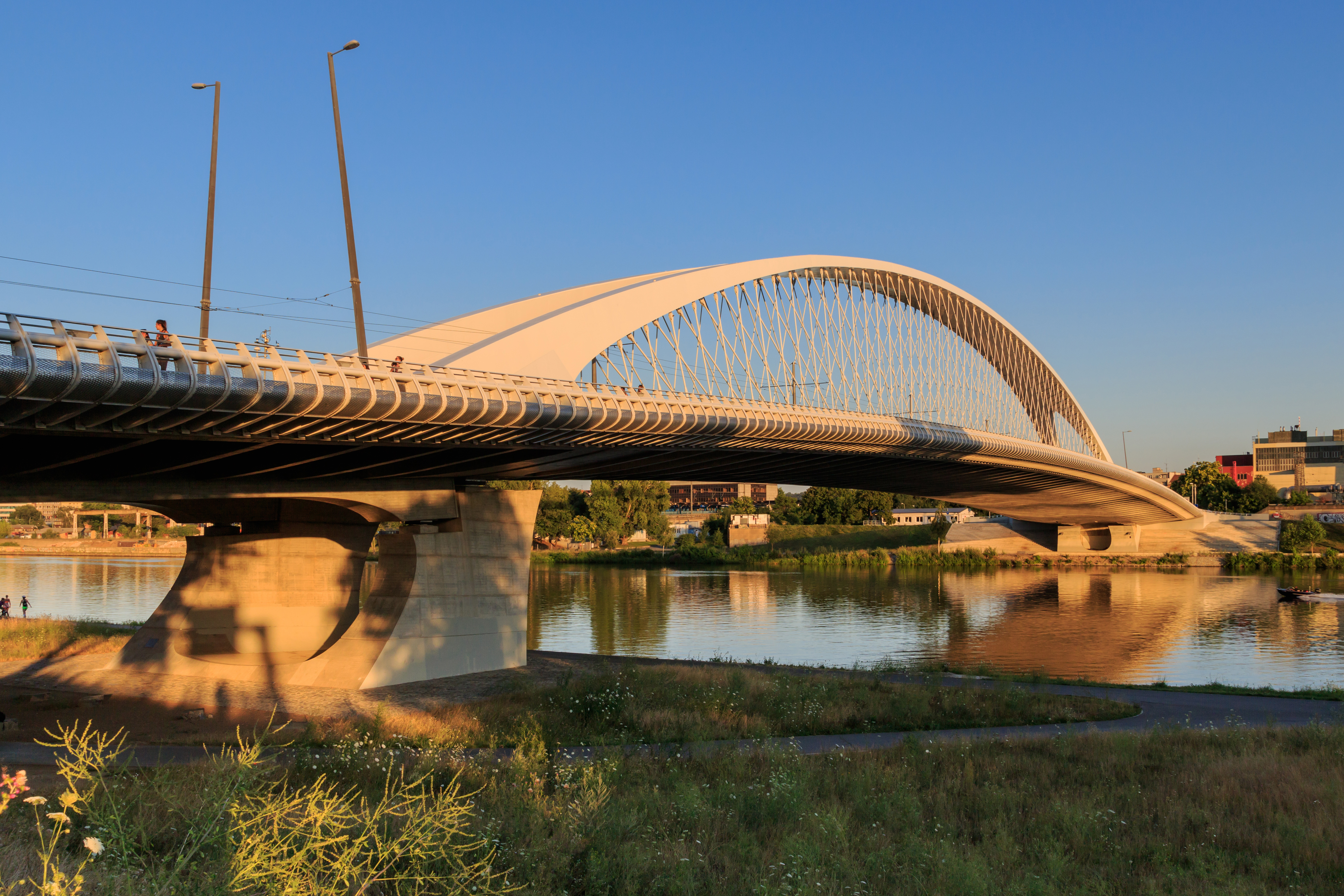 Troja Bridge in Prague (Czech Republic)